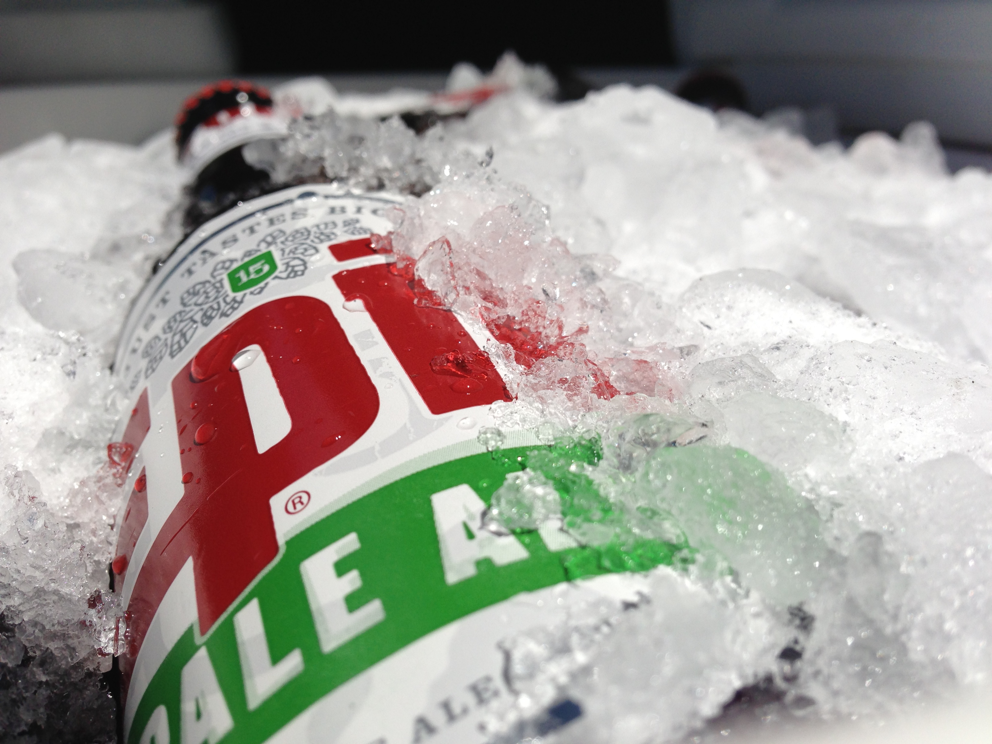 Epic Pale Ale on Ice 16 December 2012